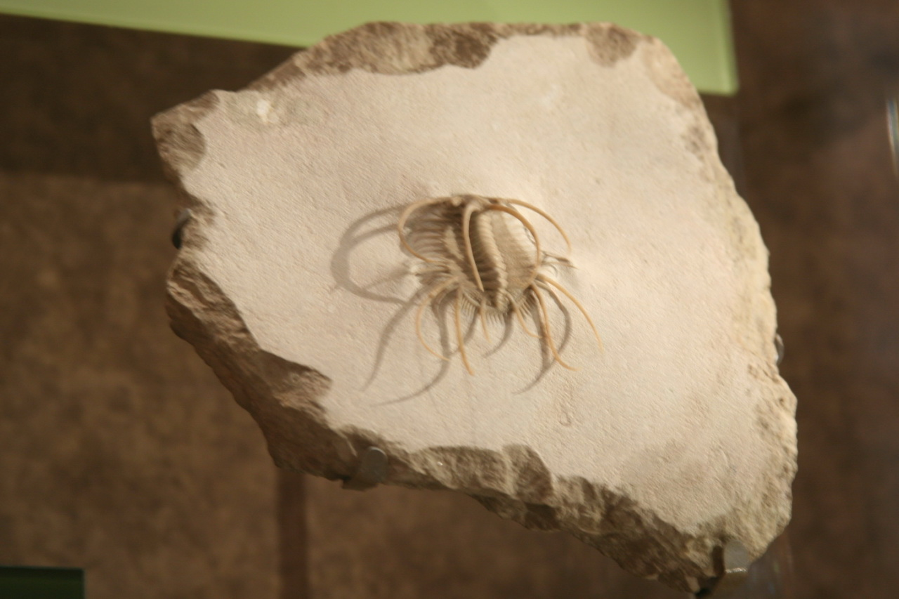 Boedaspis ensifer Trilobite Fossil (formerly known as Acidaspis kuckersiana Schmidt), Early Ordovician over 500 million years old